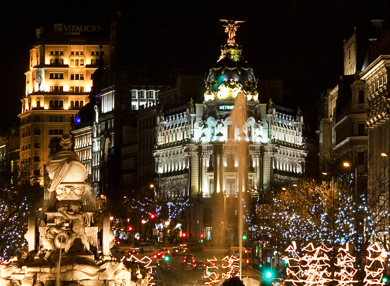 Night view of Plaza de Cibeles (square) in Madrid (Spain), with Christmas lights. Left: Fountain of Cybele. Background: Metropolis Building.